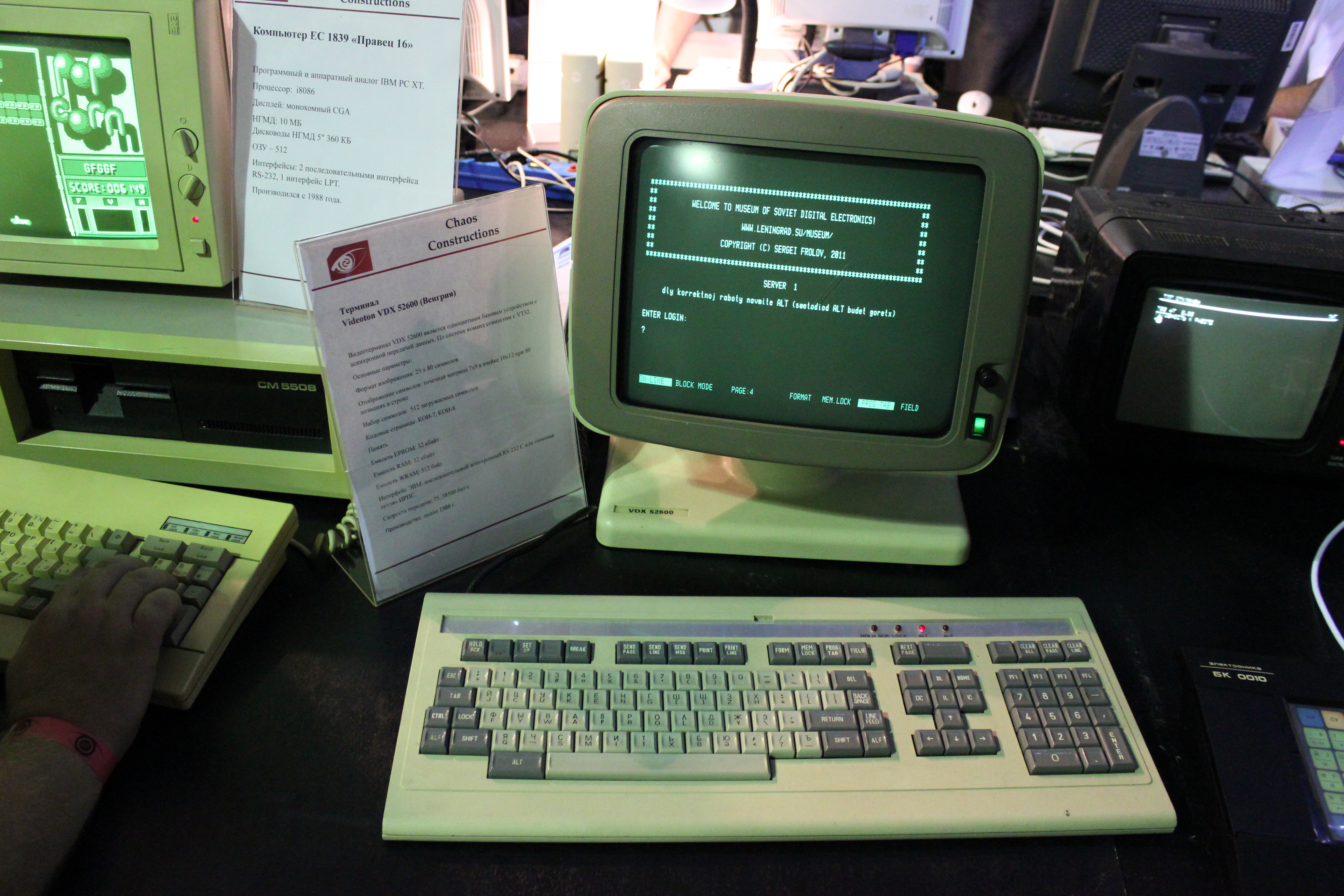 Videoton VDX 52600